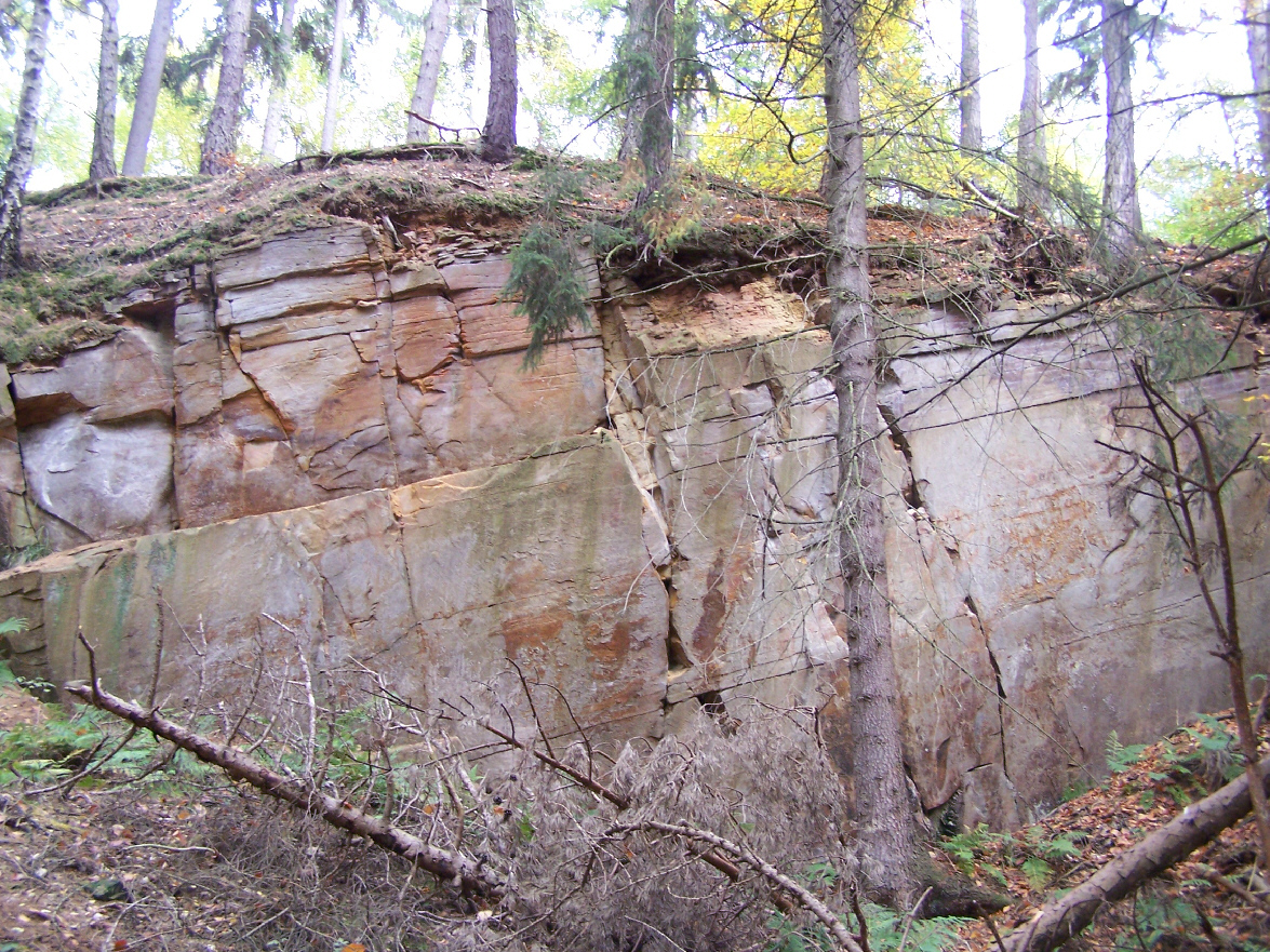 A former quarry for sandstone in the Lengroeder Holz forest district.